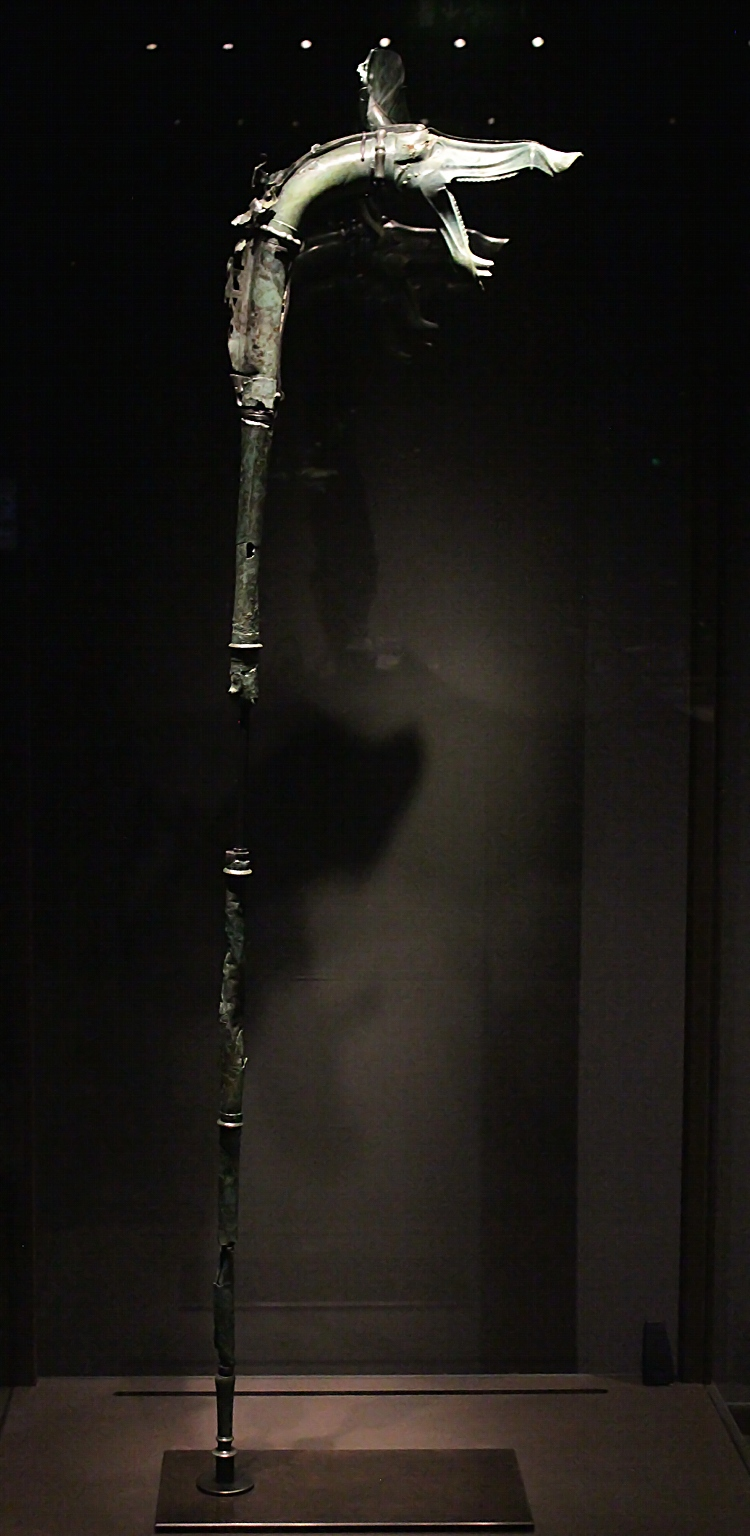 Carnyx found in the Gallic sanctuary of Tintignac (Corrèze). Cité des Sciences et de l'Industrie (Paris), "Les Gaulois, une expo renversante", from 19-10-2011 to 02-09-2012.